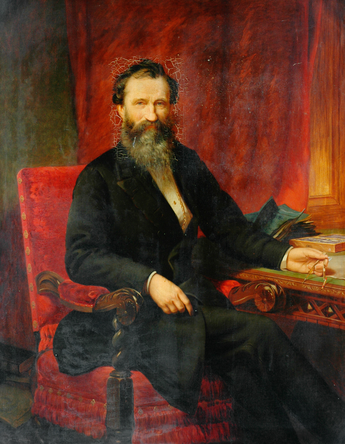 Portrait of Isaac Holden (1807-1897)